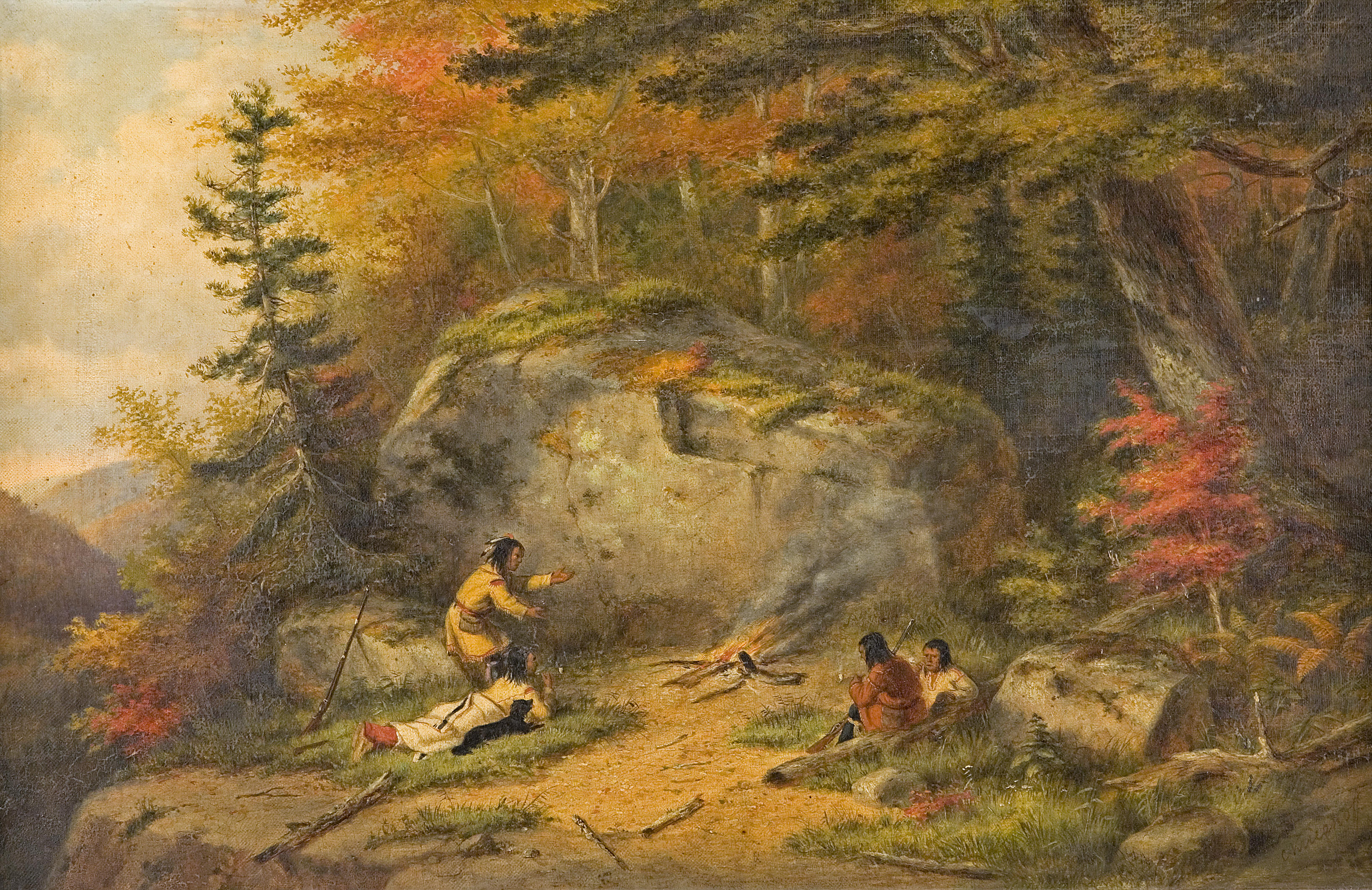 Autumn in West Canada, Chippeway Indians